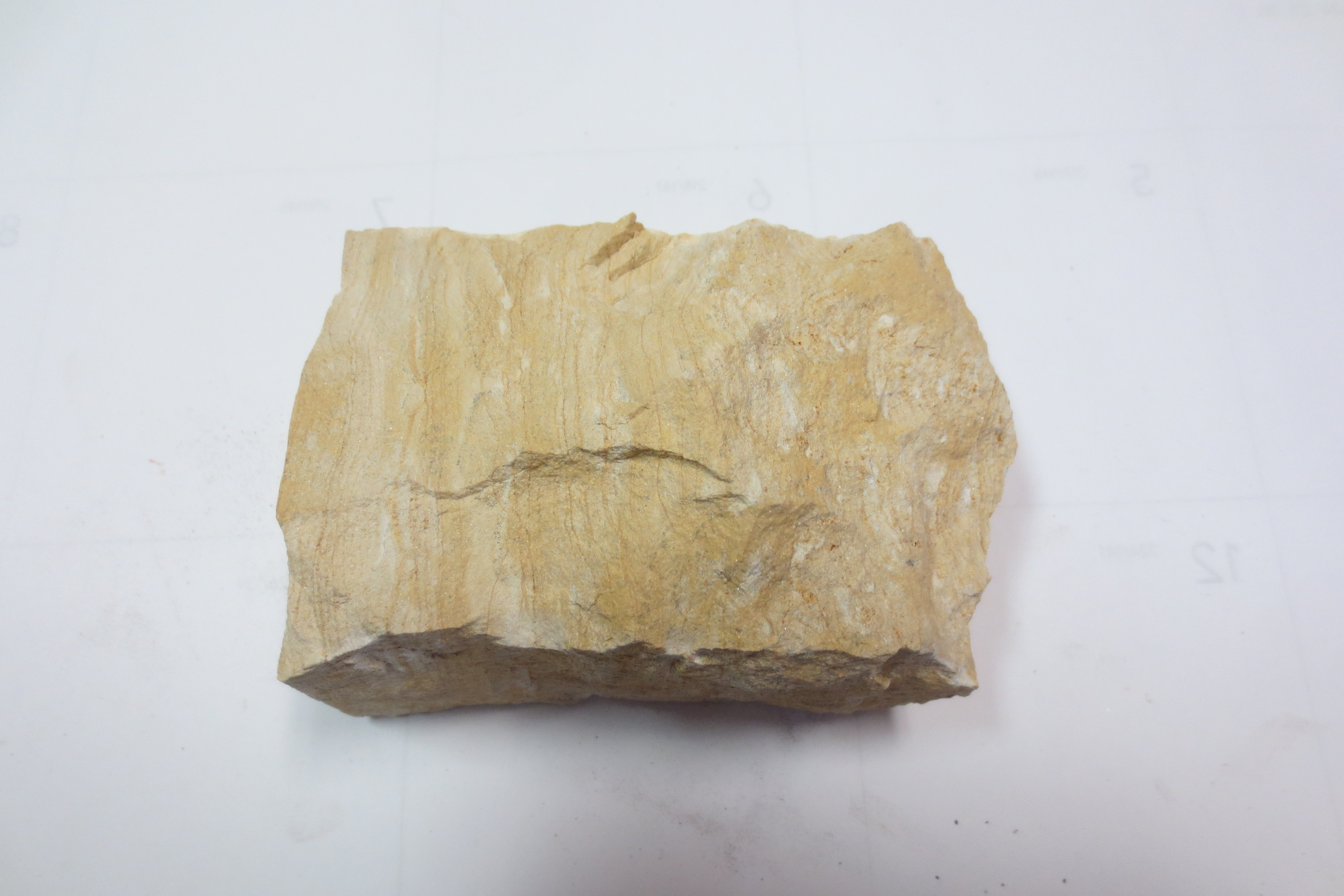 Dolomitic limestone